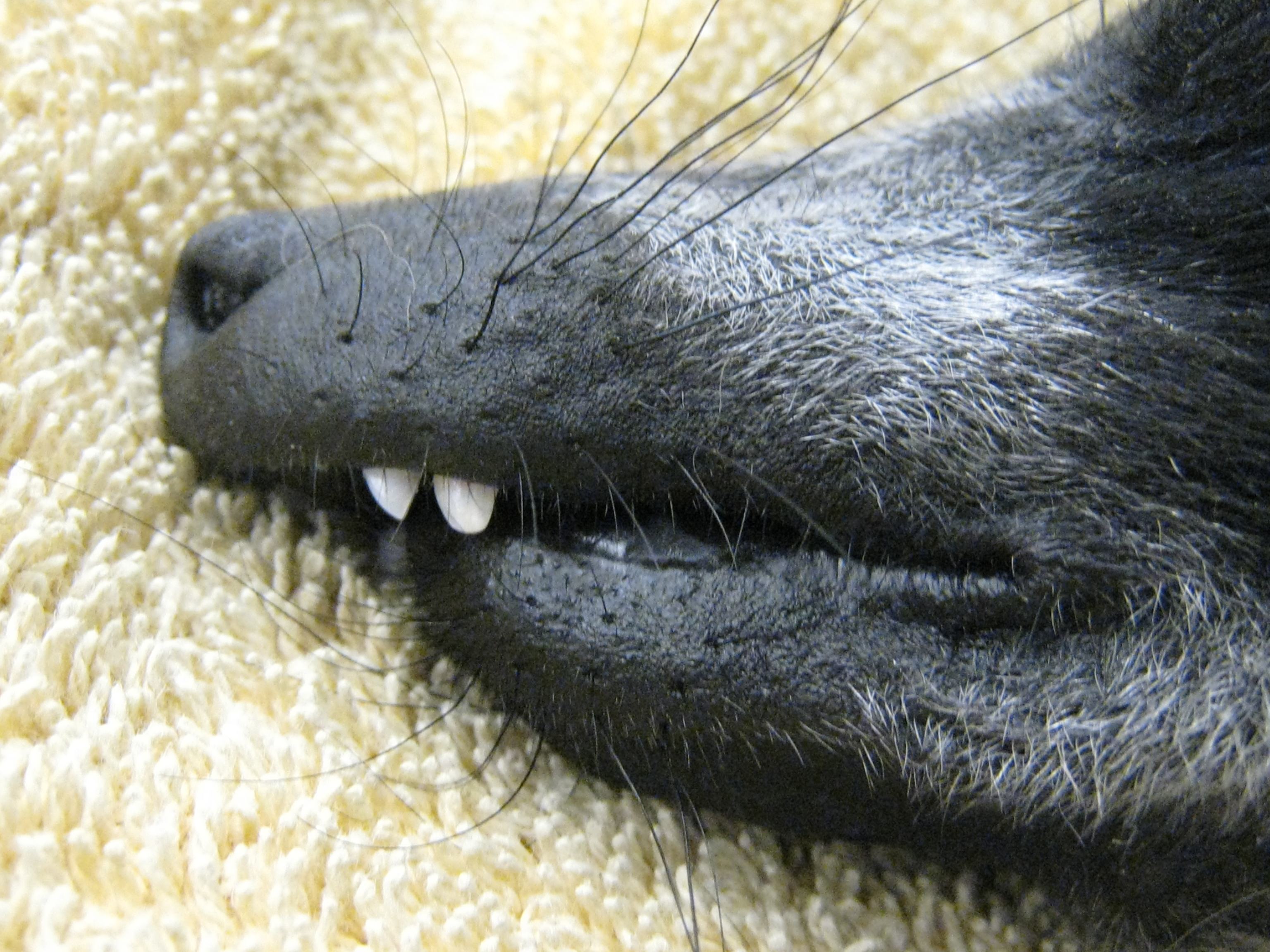 Profile of a typical ruffed lemur overbite, taken during a routine phsycial examination